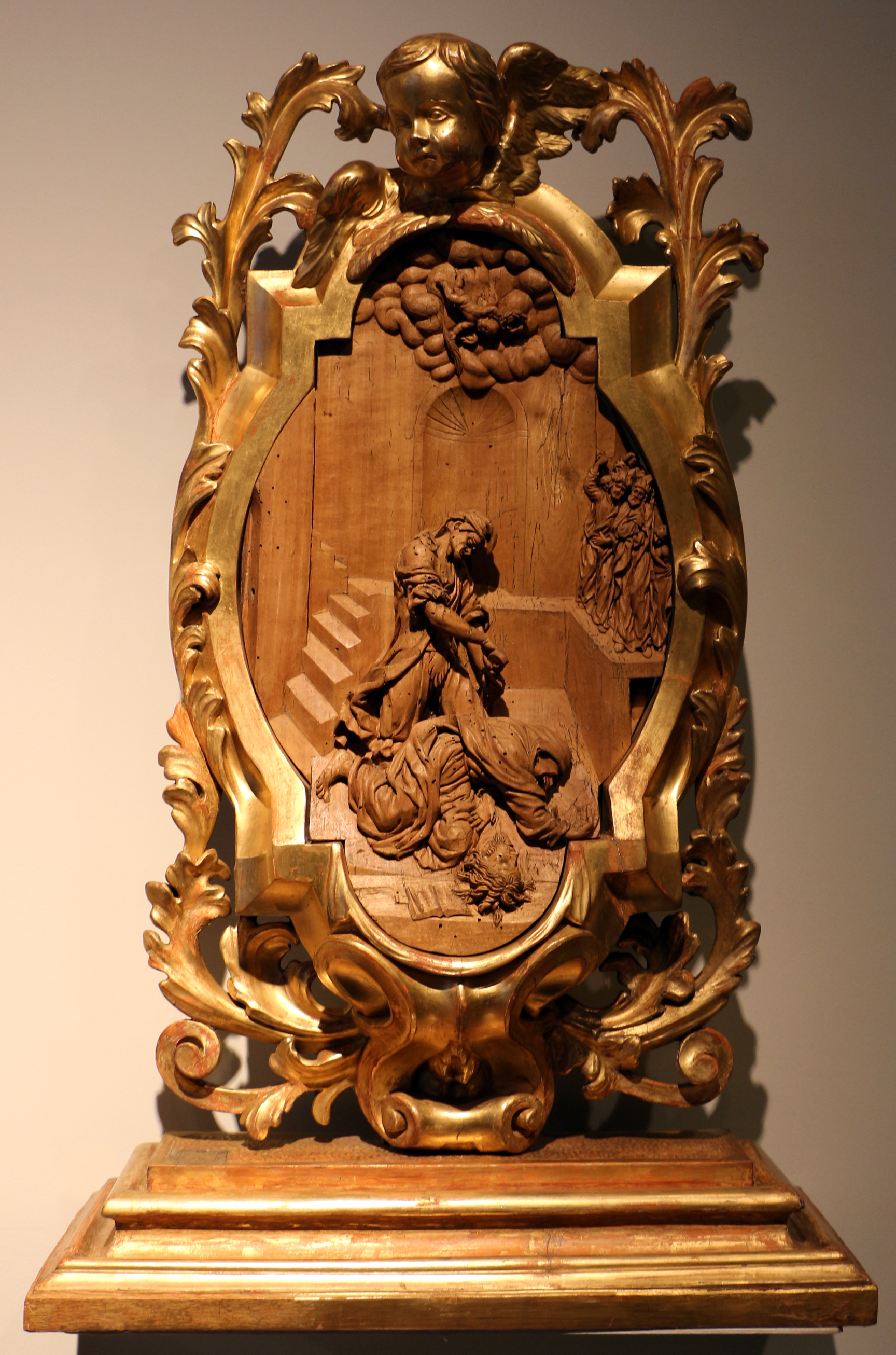 Raccolte d'arte applicate del Castello Sforzesco di Milano - Wooden sculptures